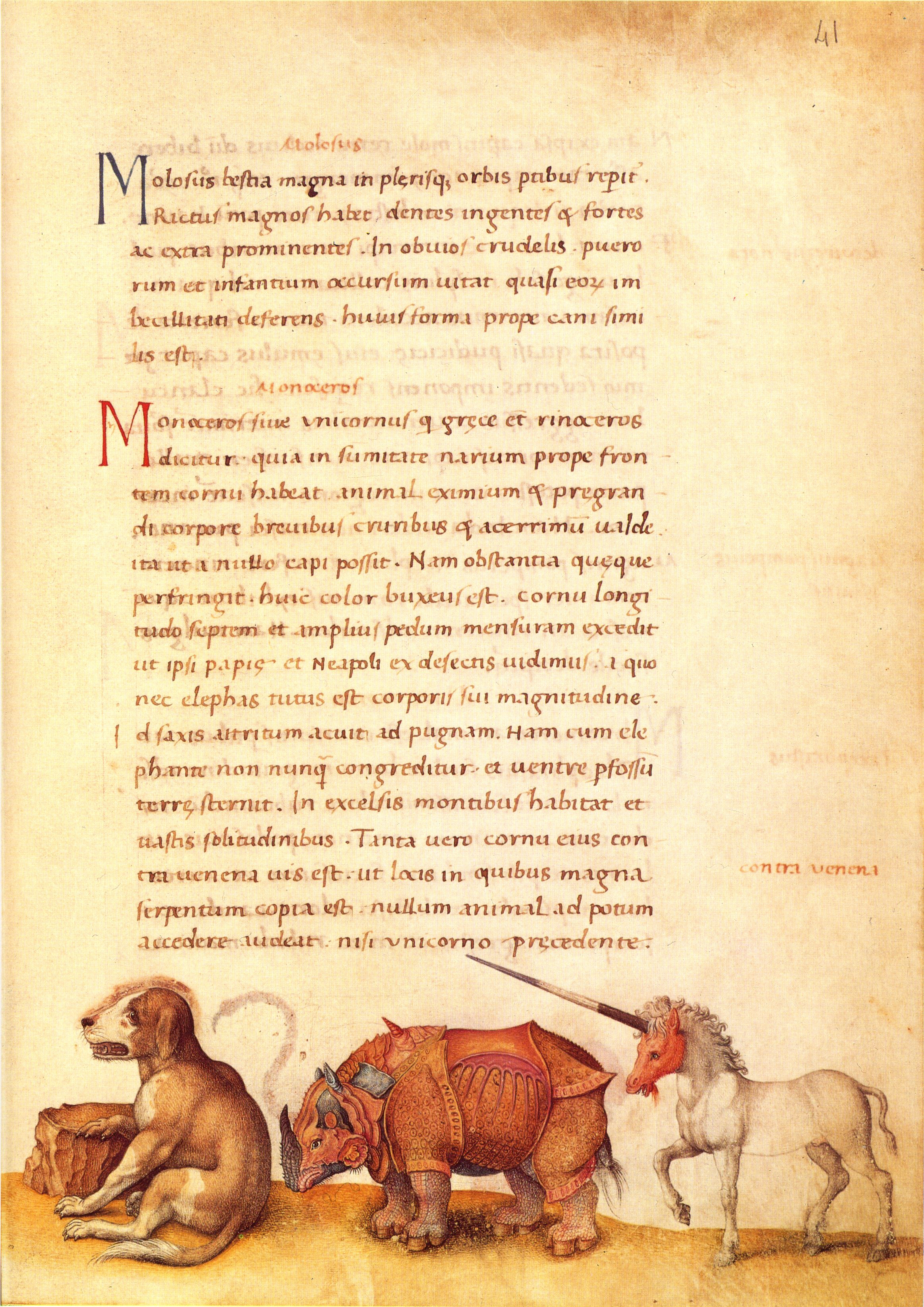 Pier Candido Decembrio, De omnium animalium natura. Biblioteca Apostolica Vaticana, Codex Urbinas Lat. 276, fol. 41r.